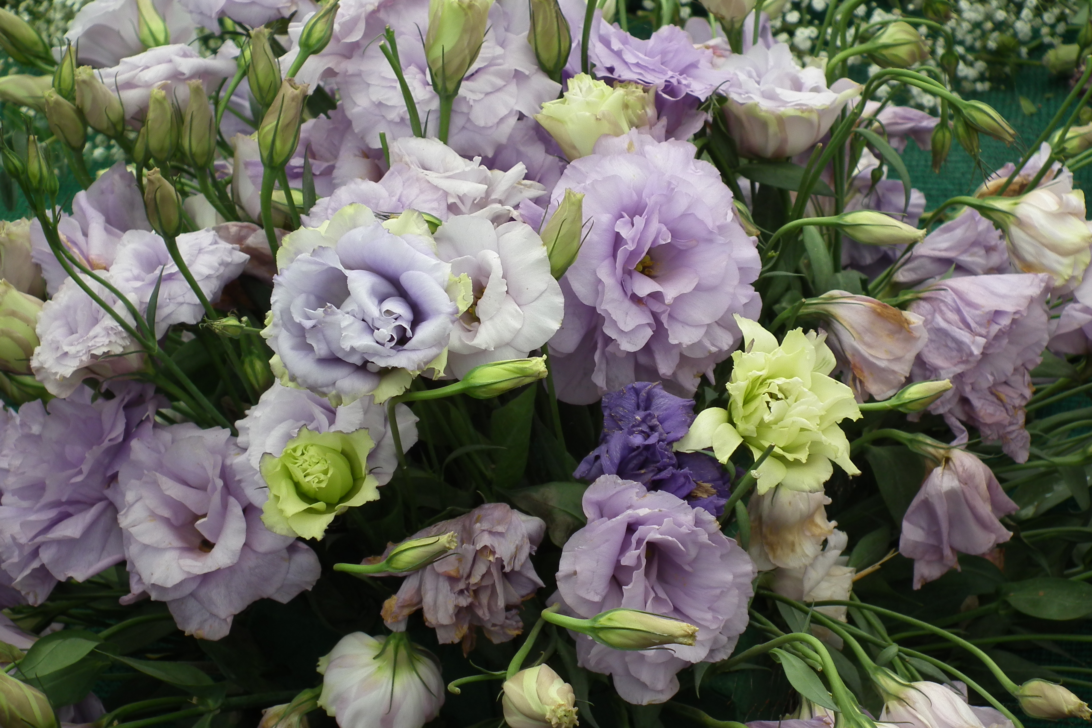 Lisianthus aka Eustoma from Lalbagh Garden, Bangalore, INDIA during the Annual flower show in August 2011. Eustoma is a genus of 3 species in the family Gentianaceae, found in warm regions of the Southern United States, Mexico, Caribbean and northern South America. They are mostly found growing in grassland and areas of disturbed ground.